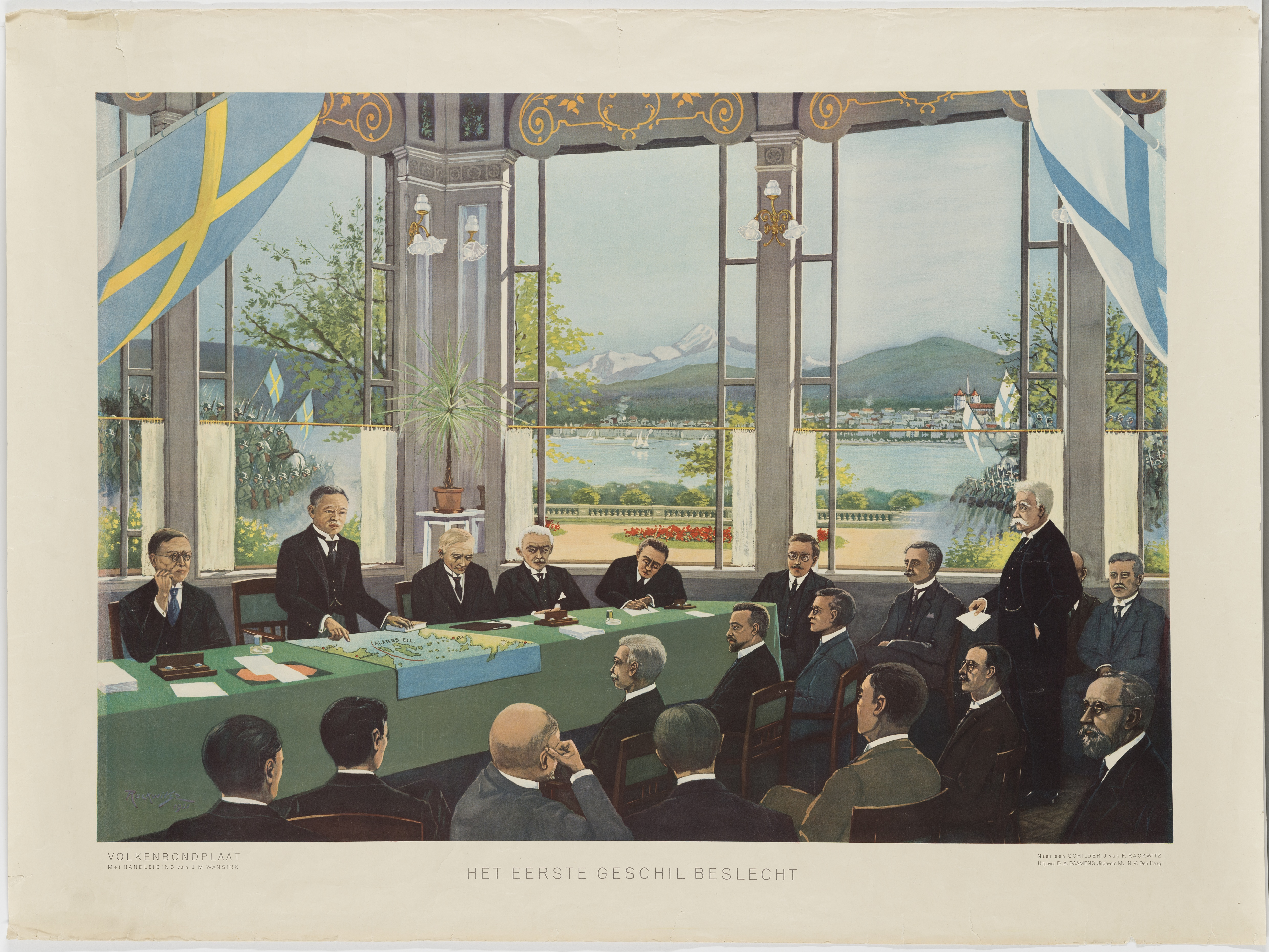 Painting of a League of Nations arbitration of Åland Islands dispute on 27th of June 1921 in Geneva, Switzerland. Speaker on the left is Japanese Nitobe Inazō. In the middle of the picture (11th from the left) Finnish Carl Enckell.